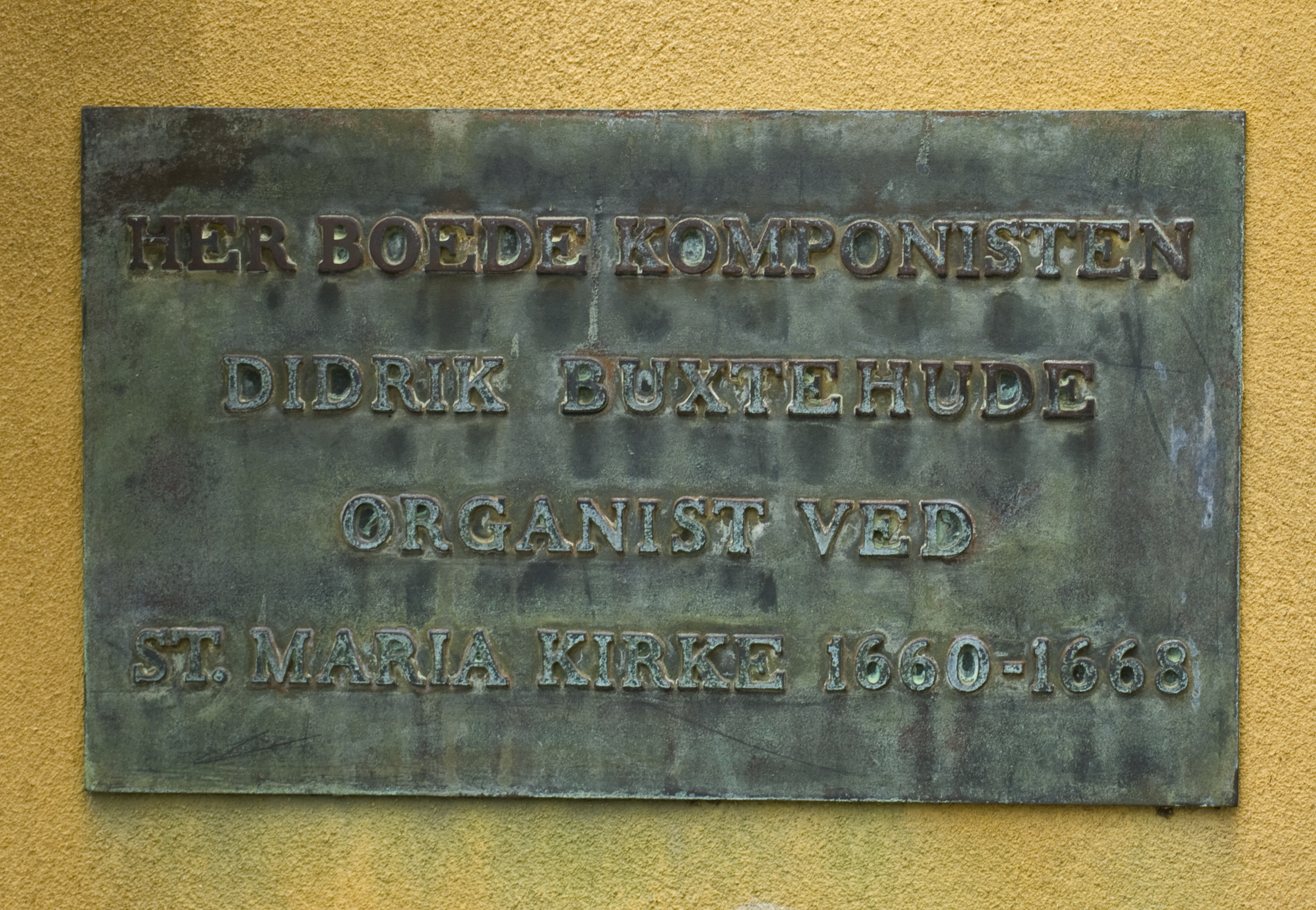 The memorial sign at the house of Dietrich Buxtehude, Helsingor, Sct Anna Gade 6A